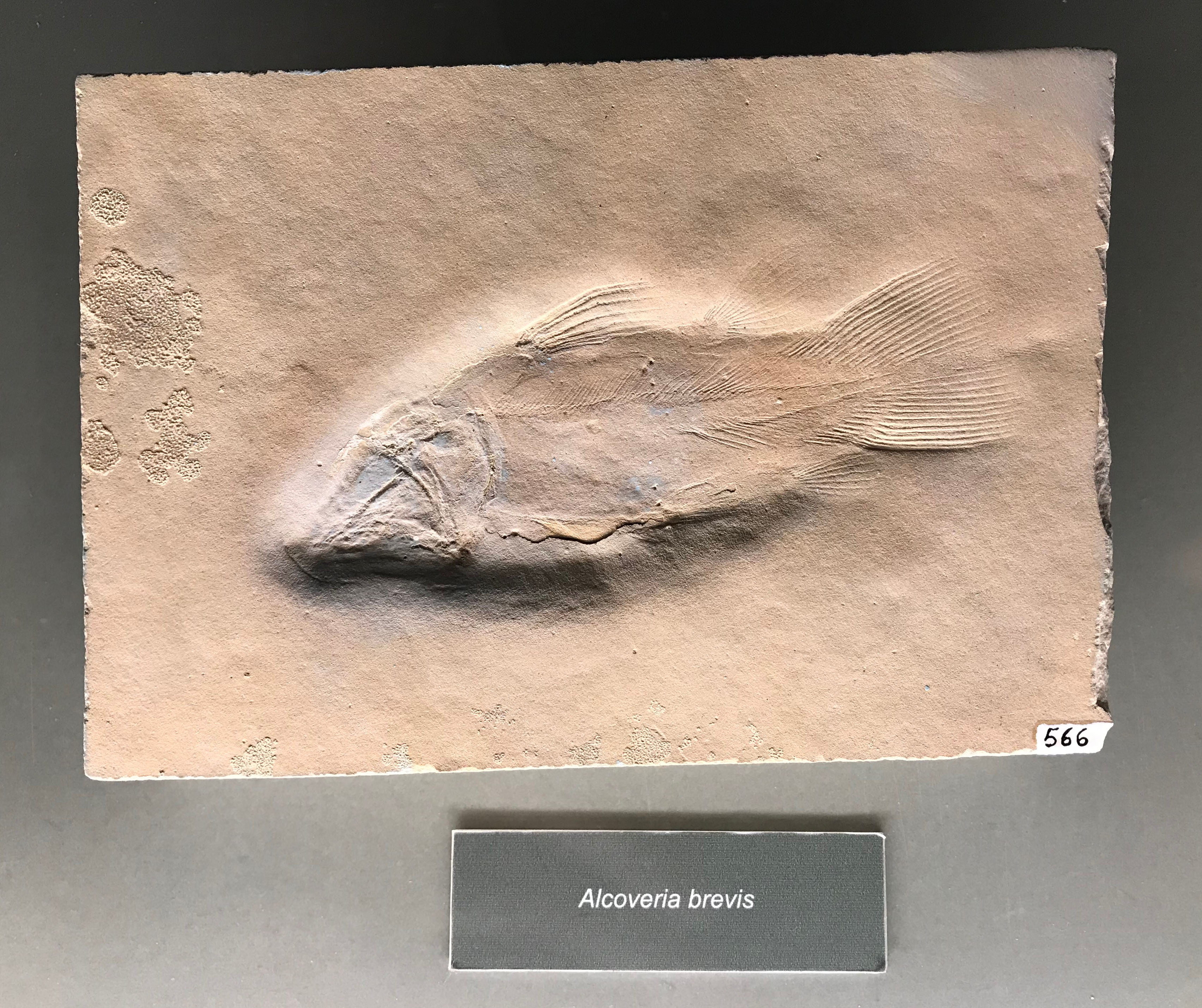 Fossil of a fish